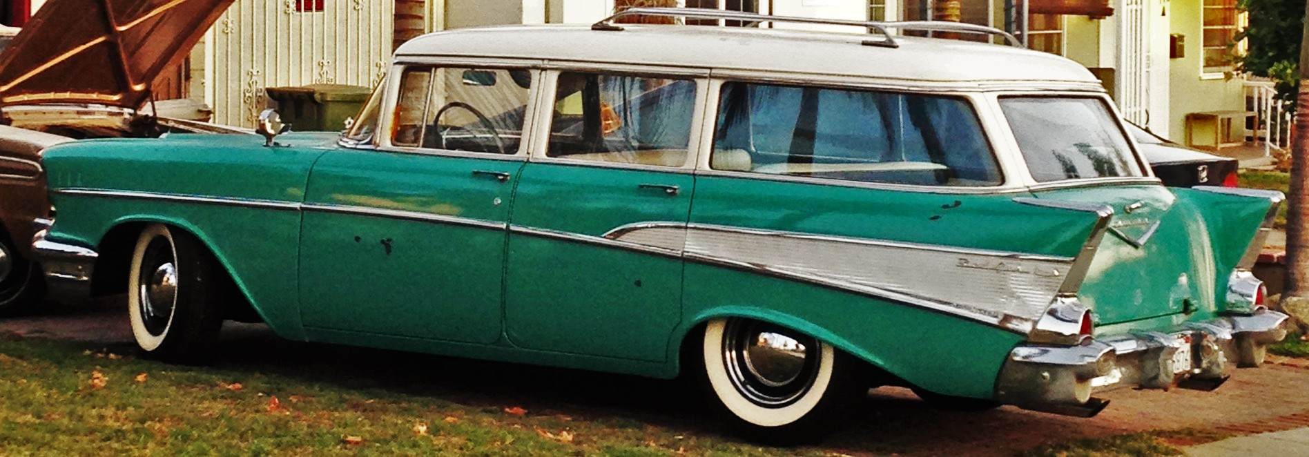 57' Chevrolet wagon